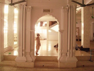 frdfgtdg